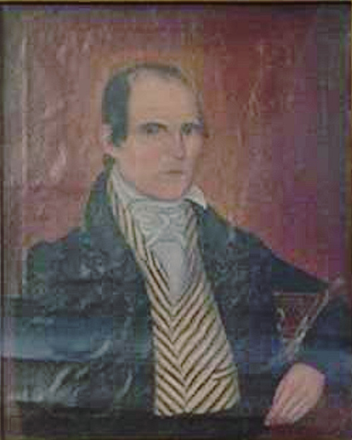 Joseph Bartholomew Birth: Mar. 15, 1766 New Jersey, USA Death: Nov. 3, 1840 McLean County Illinois, USA United States Army Major General. Born in New Jersey, during the Revolutionary War he served as a scout on patrols against marauding Indians.